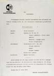 Bergens Handelsforenings Orkesters program from the first consert